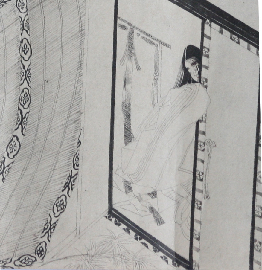 Detail part of the Illustrated handscroll of The Pillow Book, ink on paper, 13th century, Japan